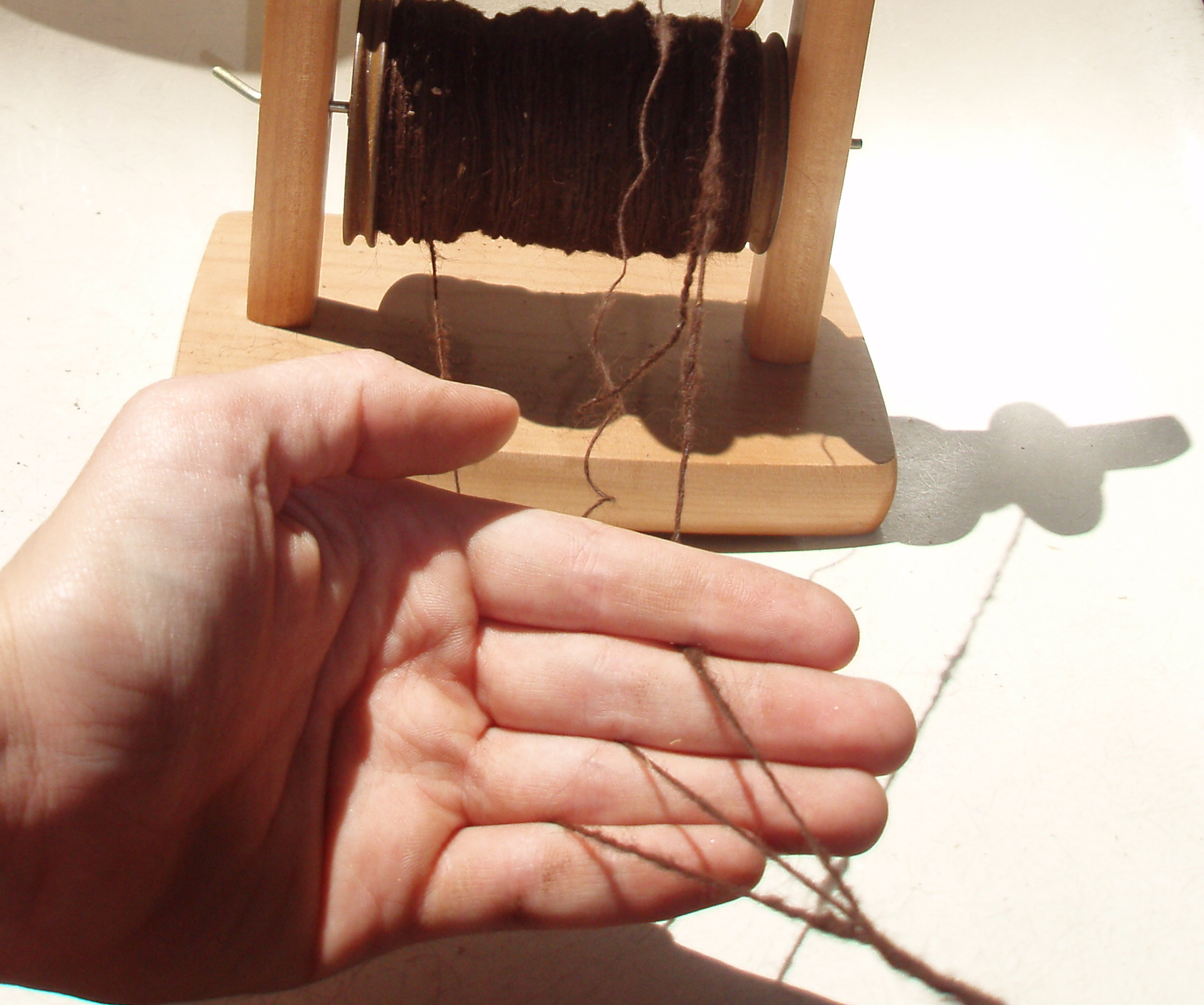 A close up on my left hand when I am plying, showing how the threads are kept separate.